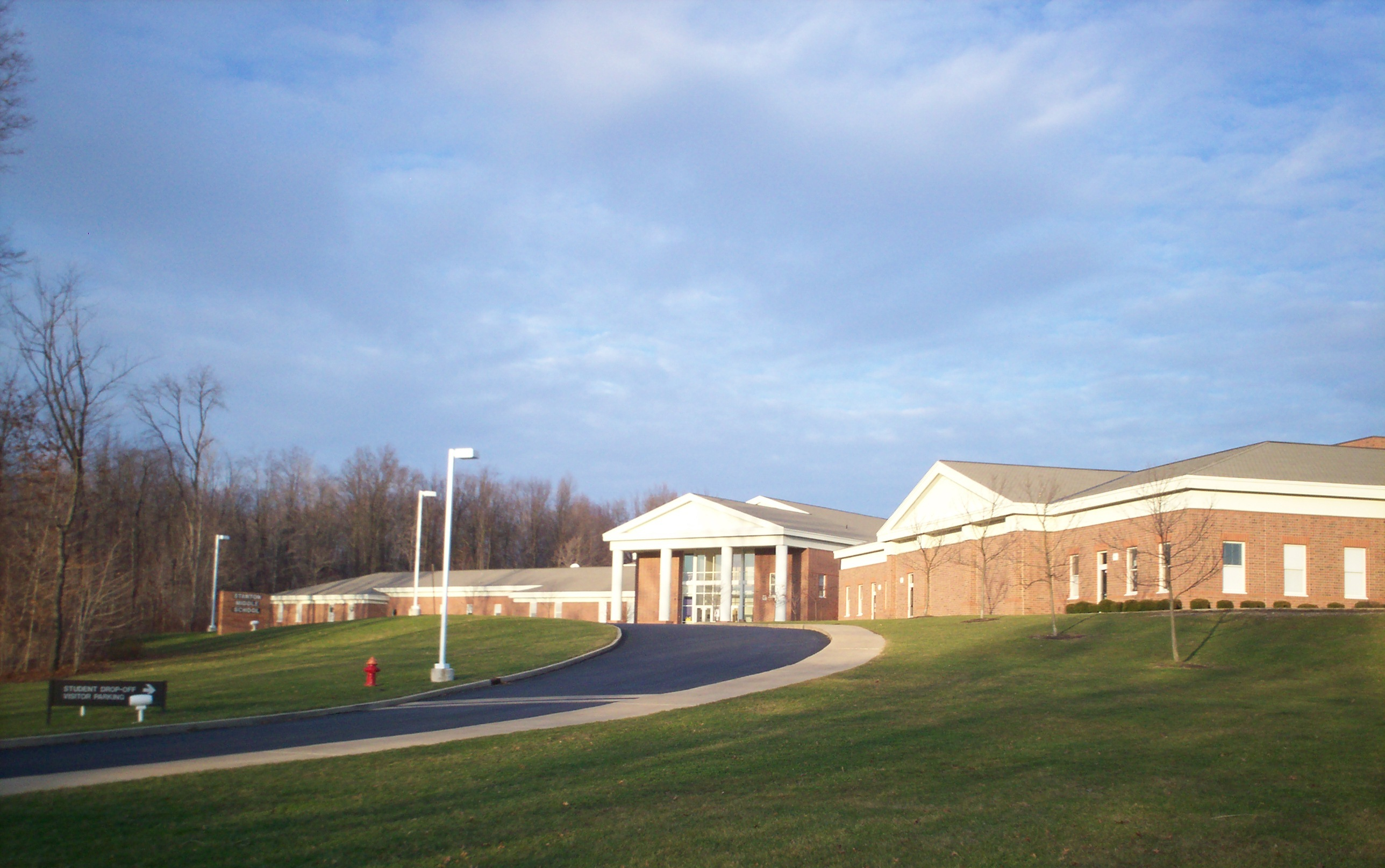 Photo of Stanton Middle School in Kent, Ohio.